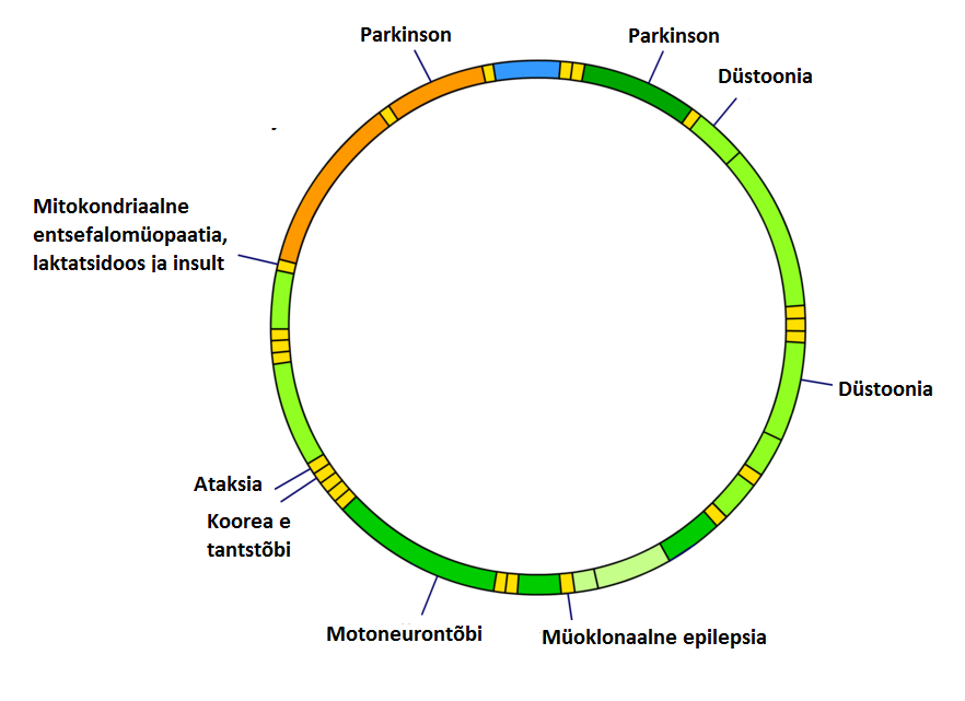 MtDNA haigused